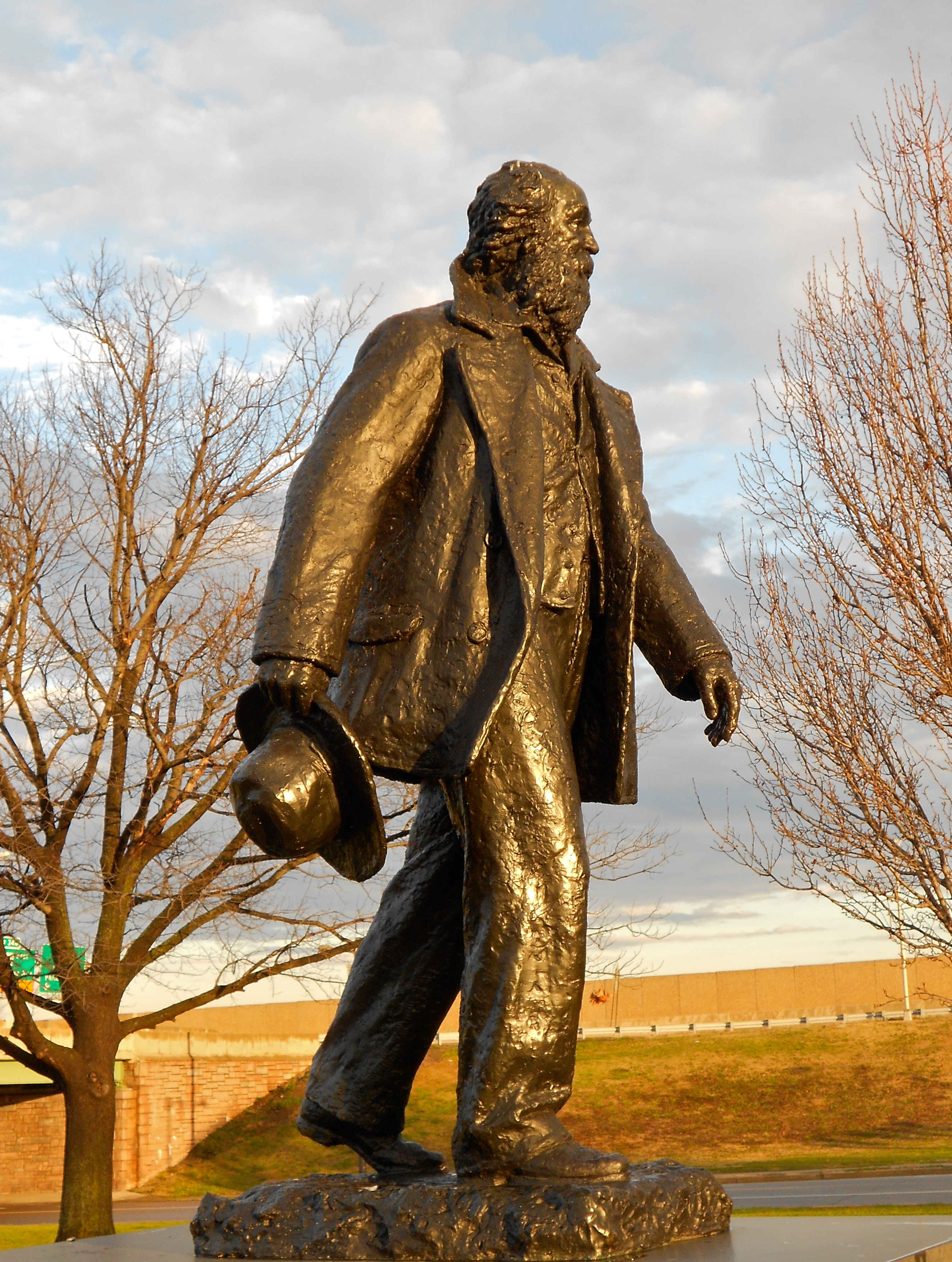 Sculpture of Walt Whitman in Philadelphia, Pennsylvania, USA, just south of the interstate on Broad Street, by Chickie and Pete's. Jo Davidson (1883-1952) sculptor Sculpture was originally made in 1937, displayed in Philly in 1947. Original went to Big Bear Park in New York. This is the 2nd casting and was placed on the Walt Whitman Bridge in 1957 and later moved to Broad Street. No visible copyright, so public domain. Smithsonian reference IAS 75009372